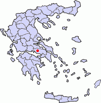 locator map, based on Image:Prefectures Greece grey.png